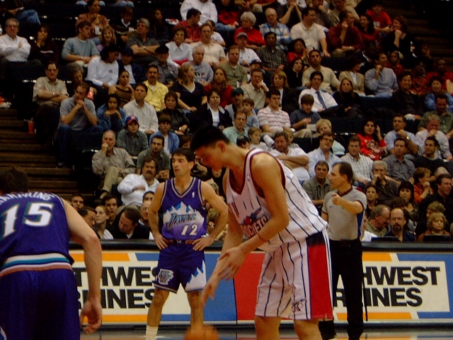 Yao Ming preparing to take a free throw.